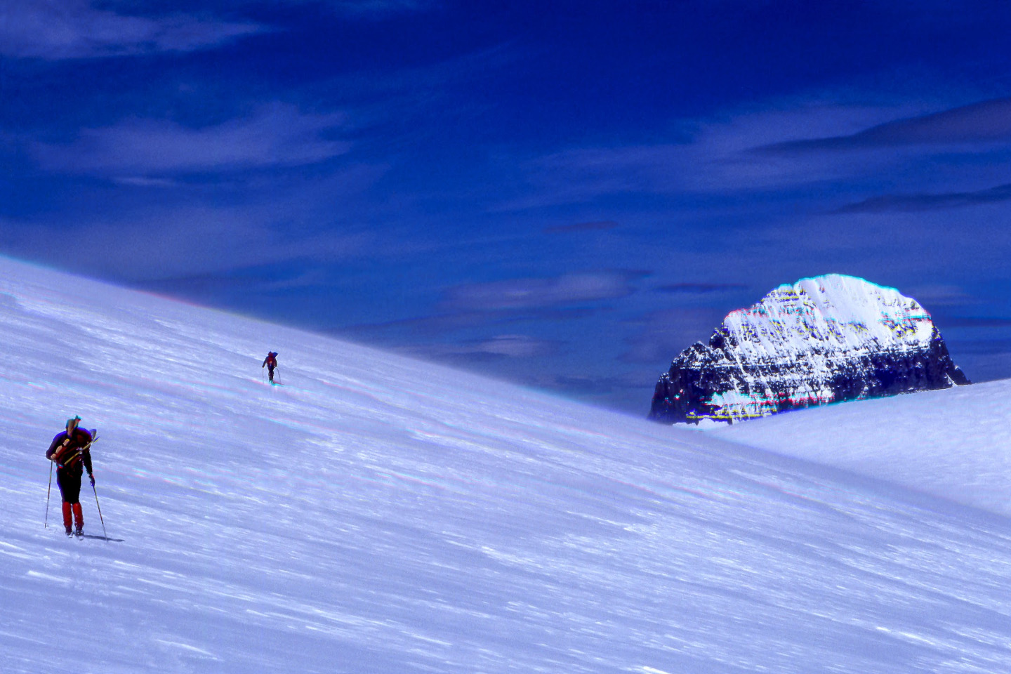 Mt. Alberta's summit from the slope of Columbia Icefield's high shoulder (Unnamed 10-7). The slope up to the right goes to the Stutfields (East and West). Vic and Doug skiing.